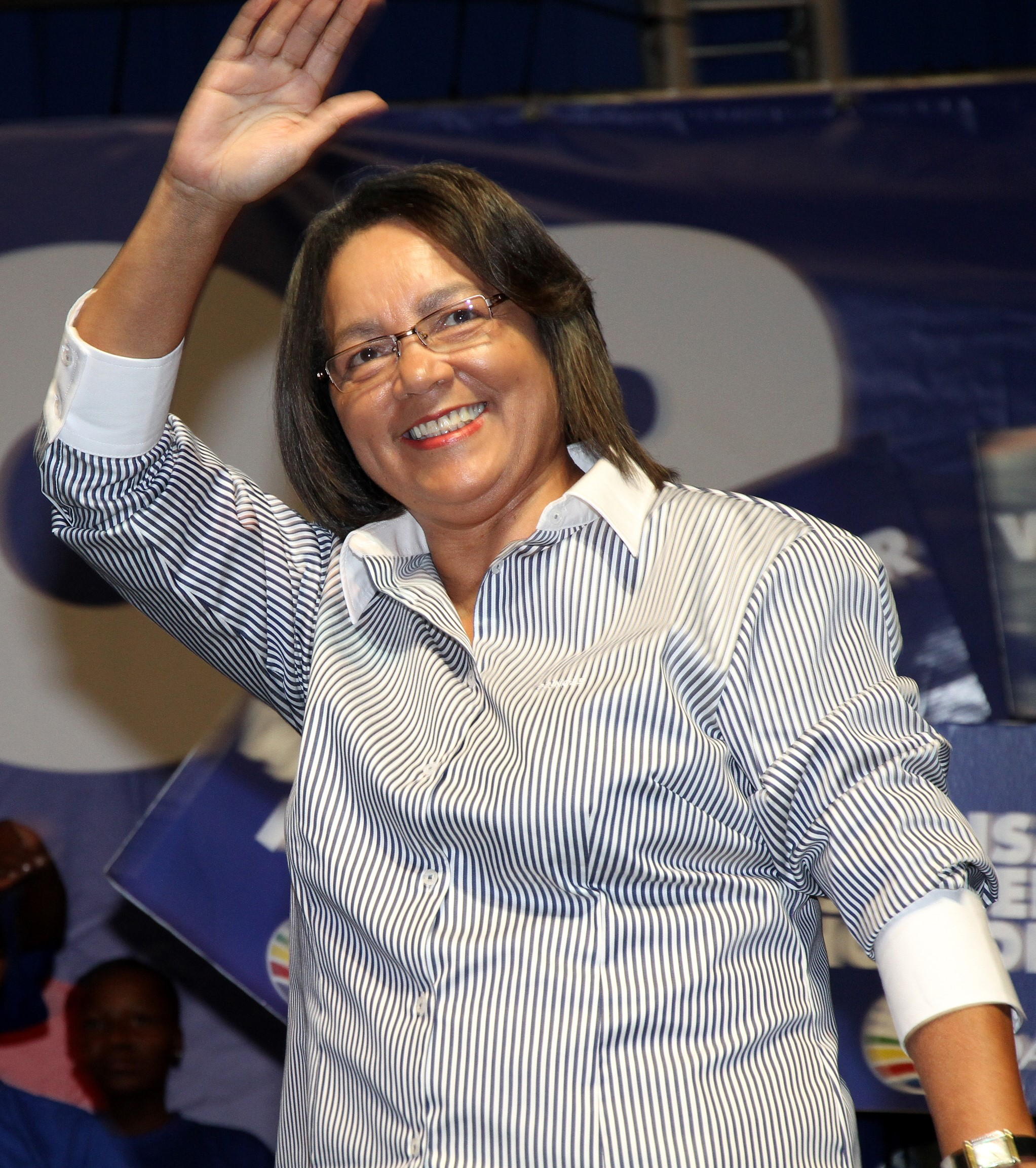 Depicted person: Patricia de Lille – South African politician